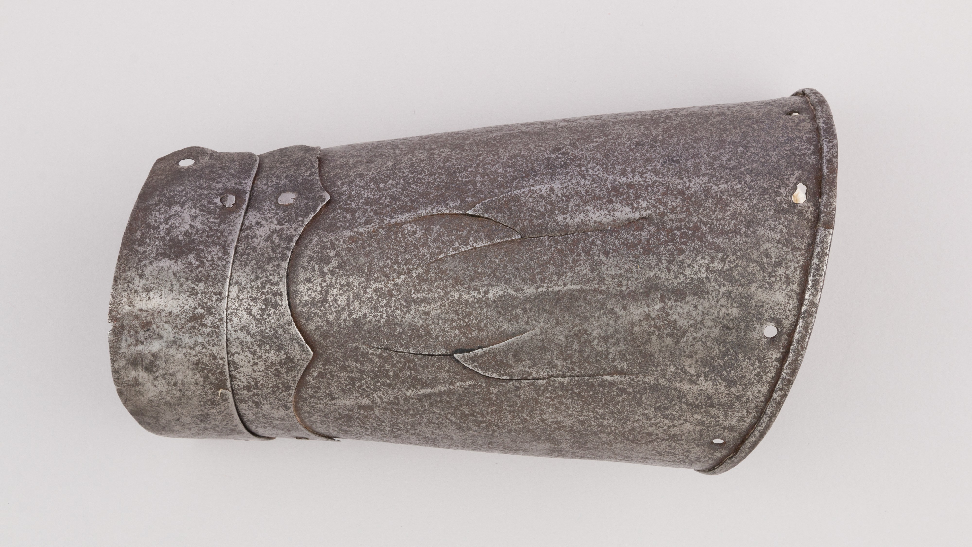 Italian; Upper arm defense (Rerebrace); Armor Parts